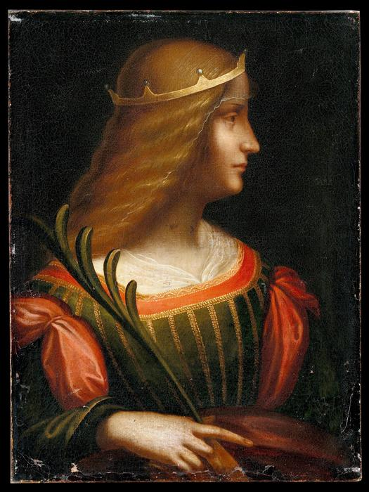 Portrait of Isabella d'Este, after a drawing by Leonardo da Vinci,ca. 1500-1515, with later additions to transform it in a painting of Saint Catherine of Alexandria. Found in 2013 in a private collection at Switzerland.